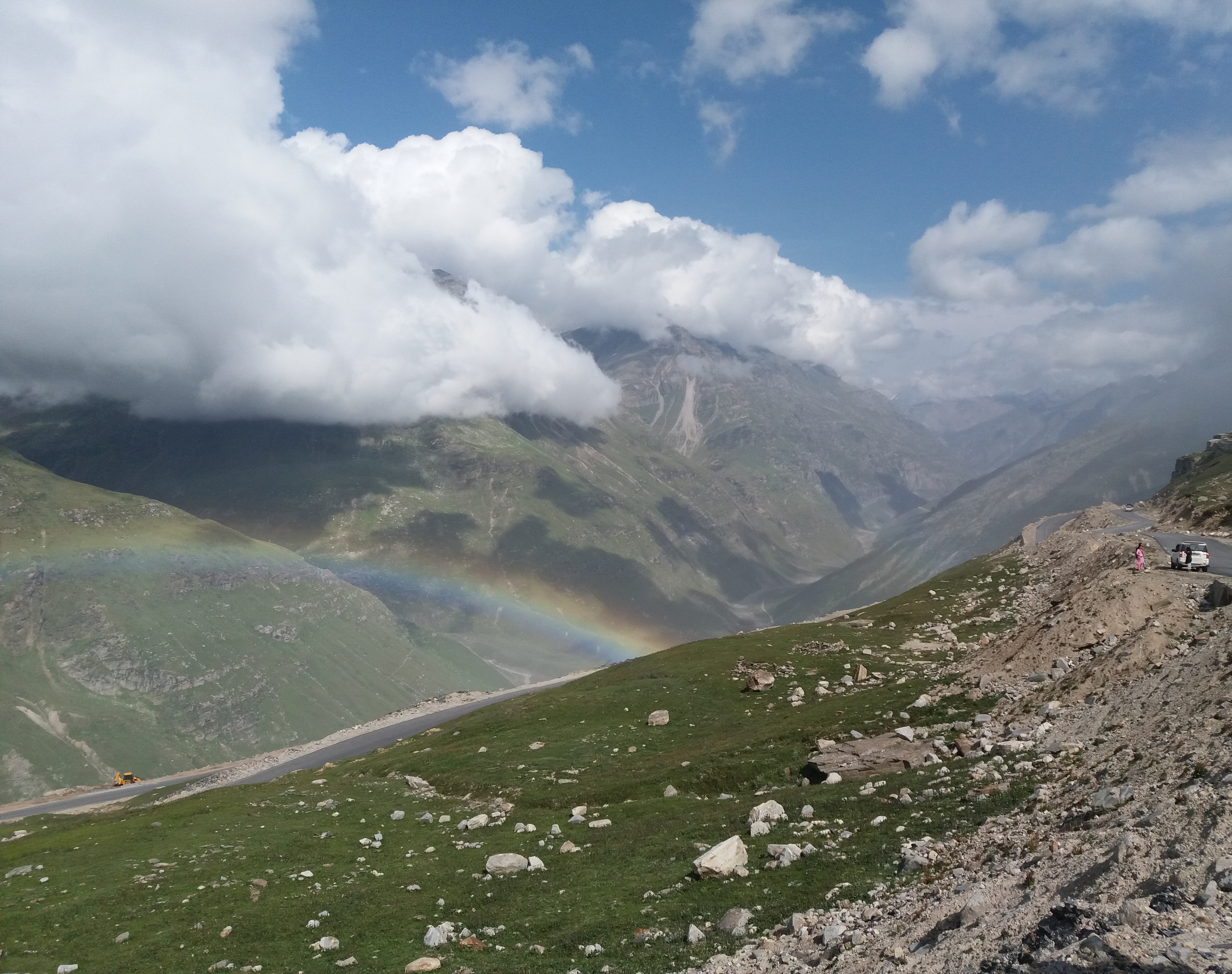 Rainbow from Rohtang pass road, Manali–Leh Highway, India.